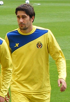 Players of Villarreal CF coming off the pitch at JJB Stadium in August 2011.